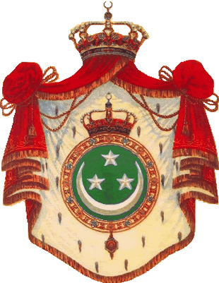 Coat of arms of the Kingdom of Egypt, adopted by royal decree on 10 December 1923, and replaced by the republican eagle on 29 June 1953.